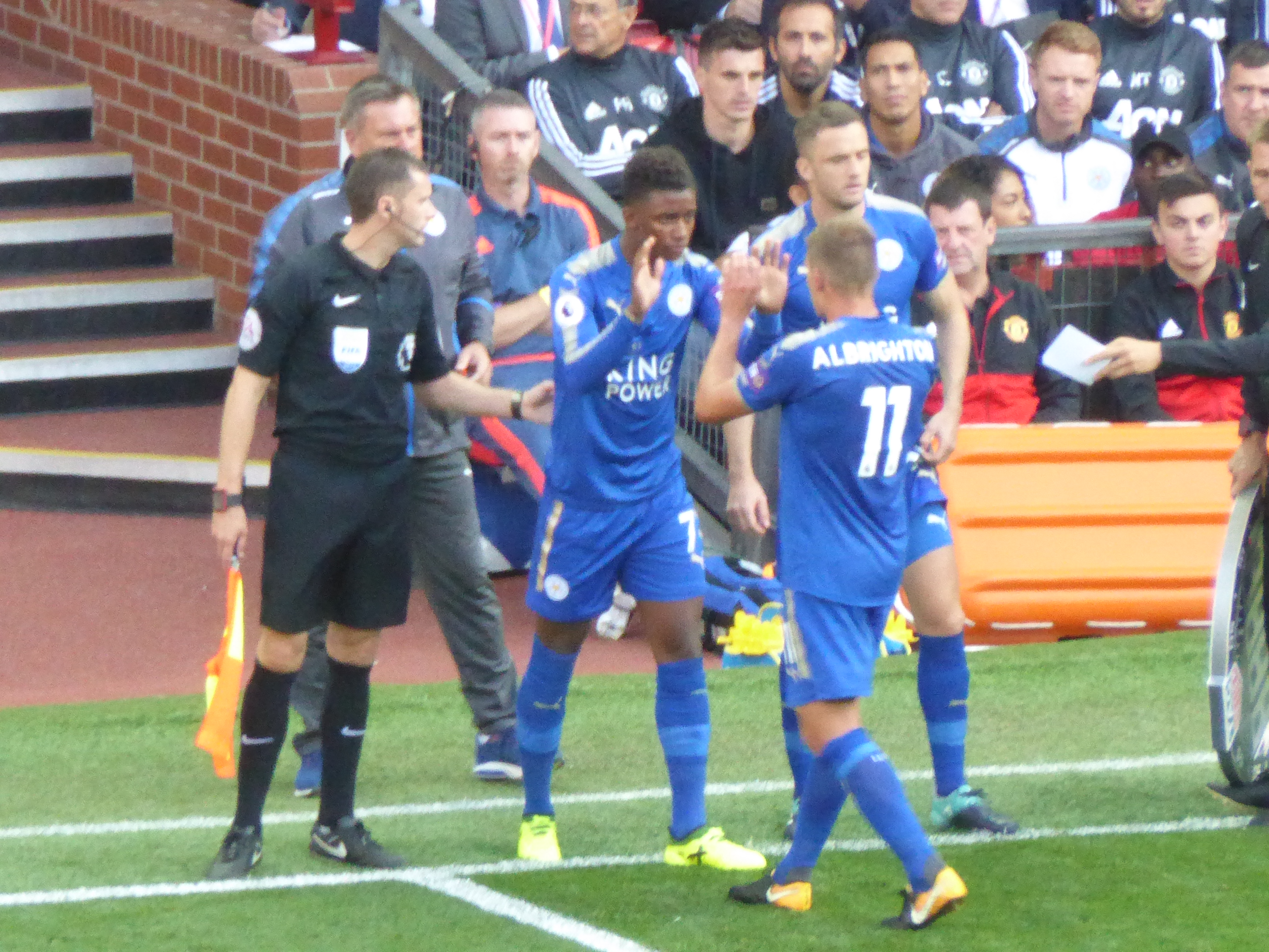 Manchester United v Leicester City (2-0), Premier League, Old Trafford, Manchester, Greater Manchester, England, 26 August 2017